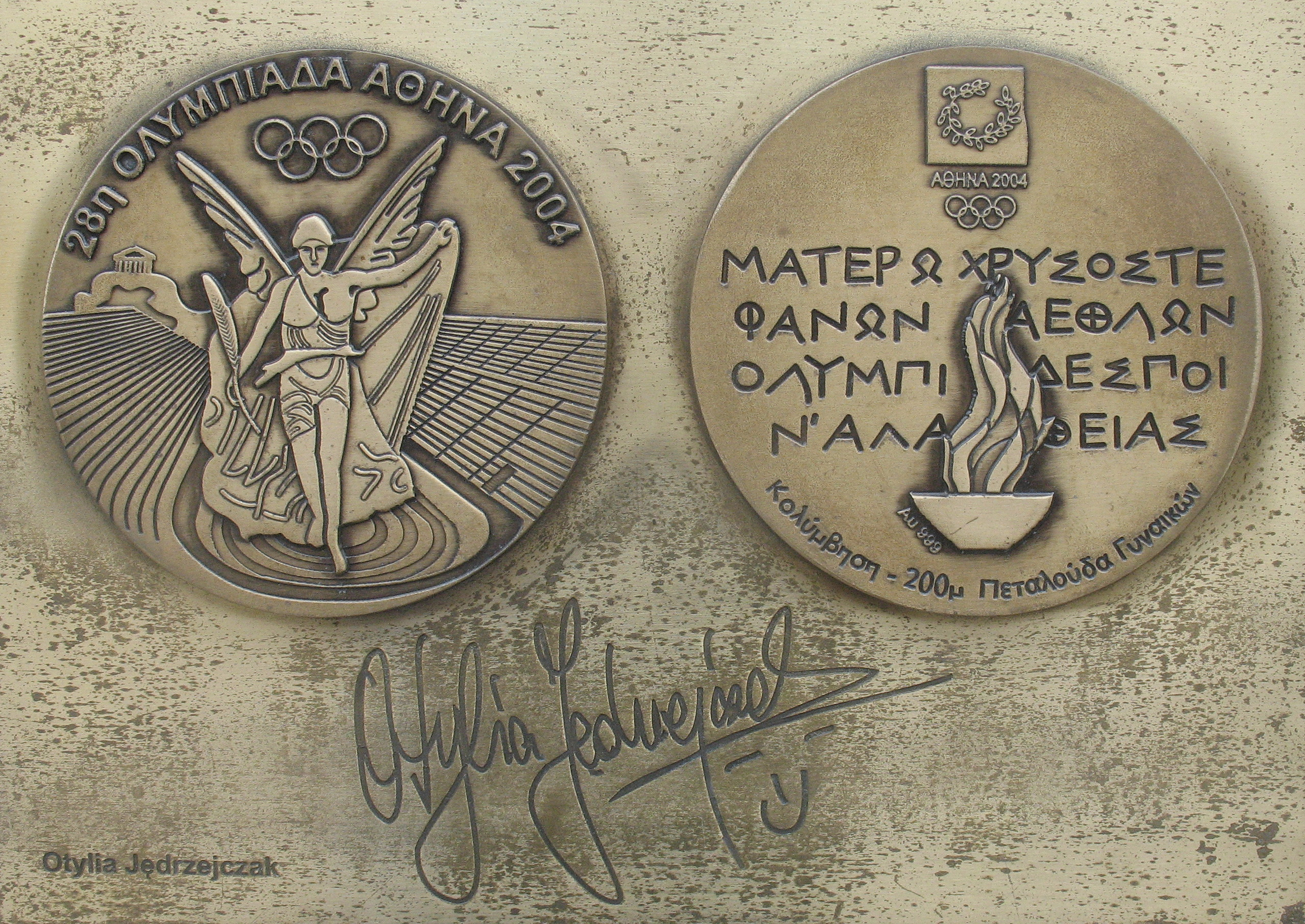 Otylia Jedrzejczak medal & autograph in Avenue of Sport Stars Dziwnów